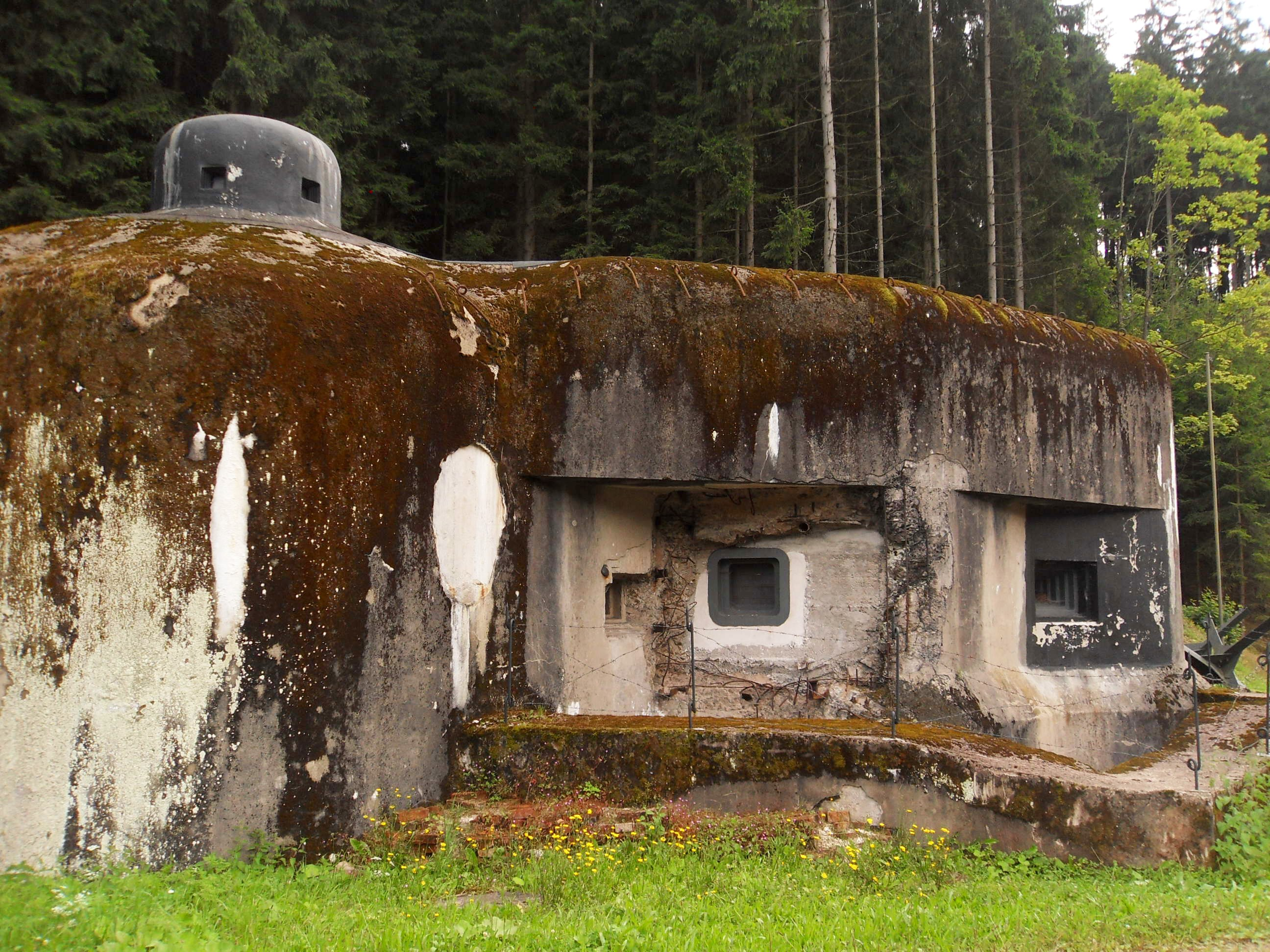 T-S 63 infantry casemate, Trutnov District, Czech Republic